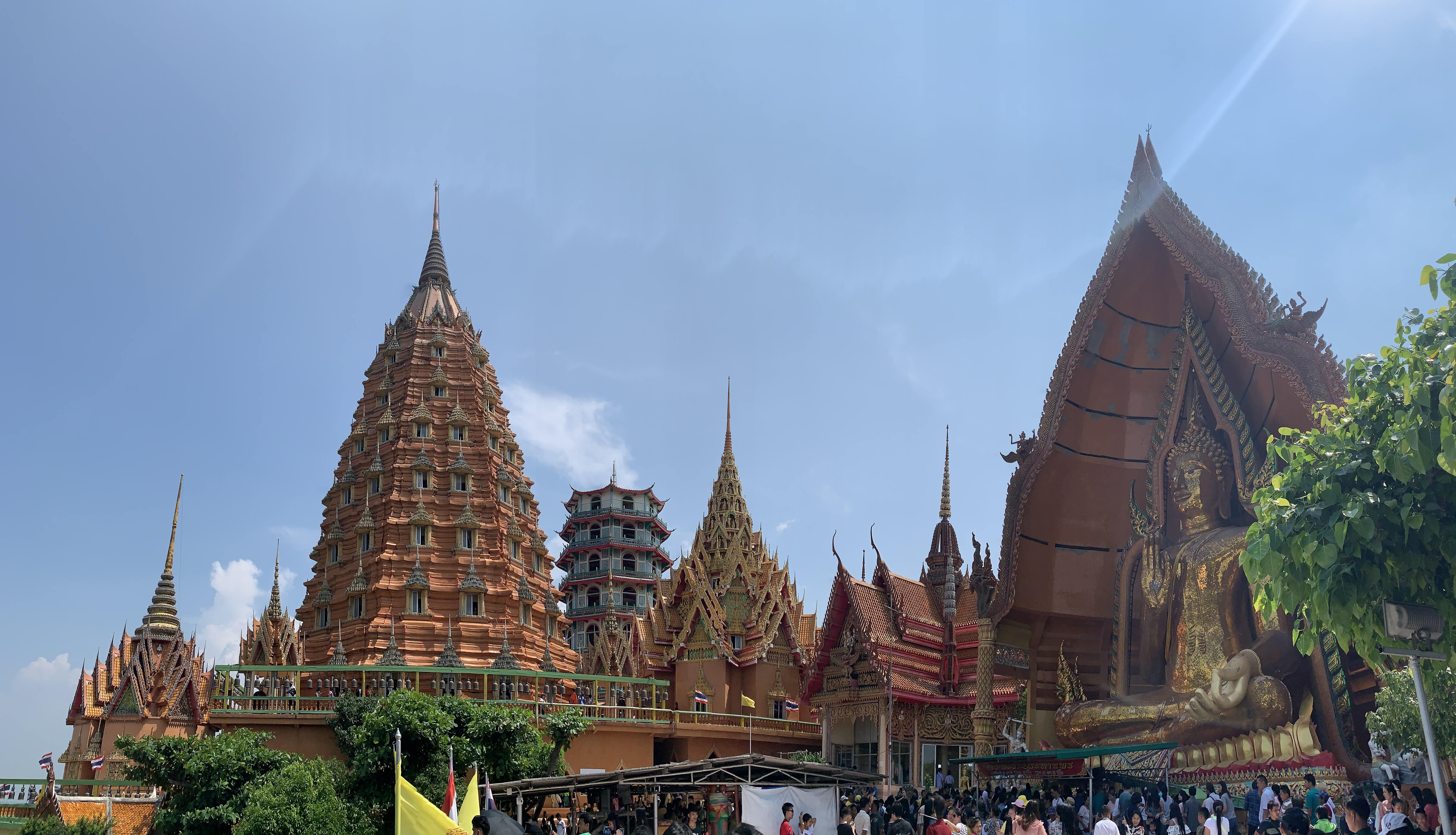 Wat Tham Seua in Kanchanaburi